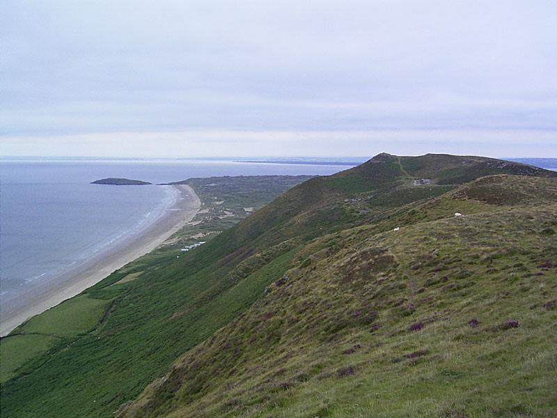 Whiteford Sands, Gower, Wales, UK